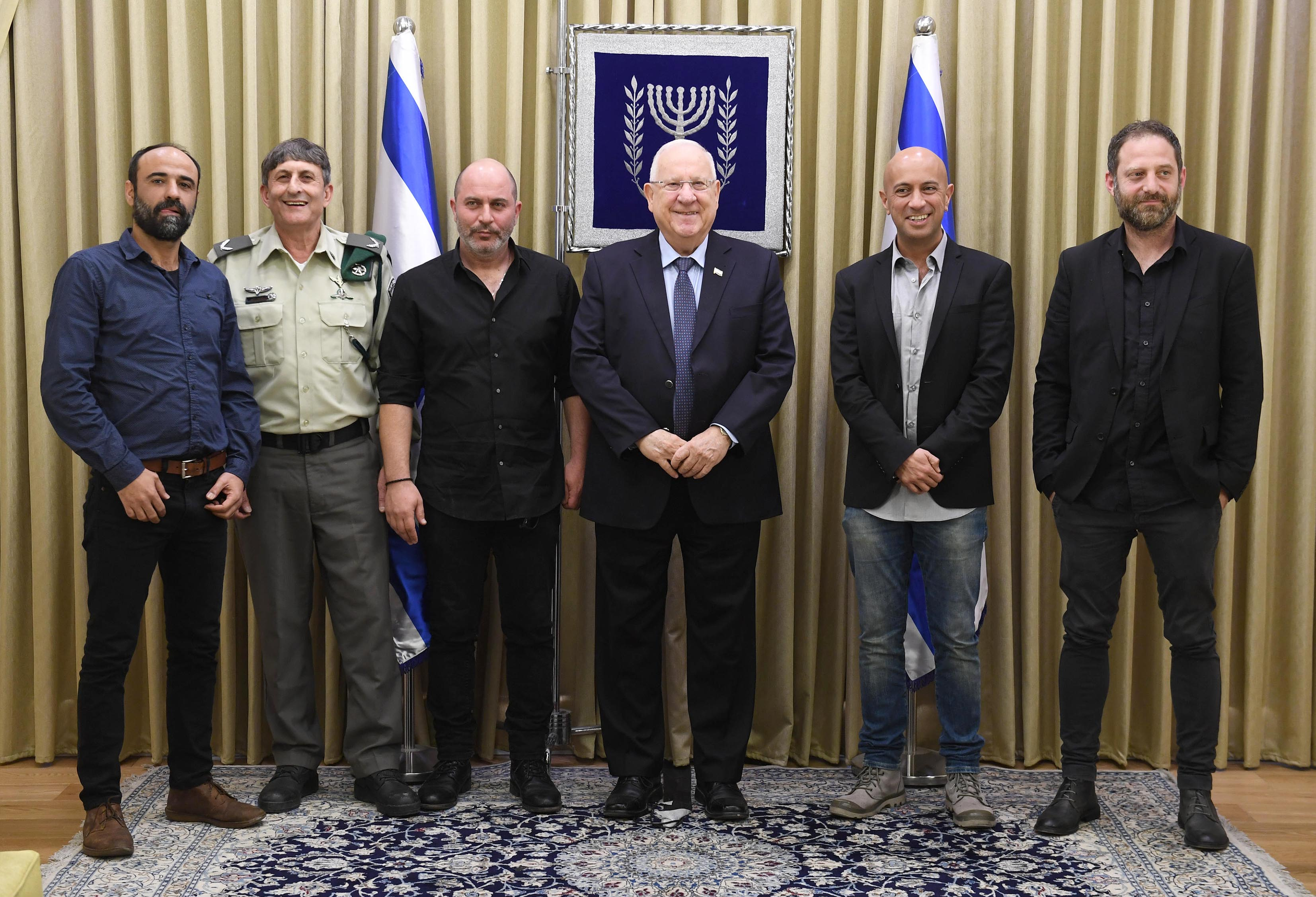 President of Israel, Reuven Rivlin, with the personal of the Israeli television serie, Fauda, Wednesday, February 7, 2018. Photo Credit: Mark Neyman / GPO.